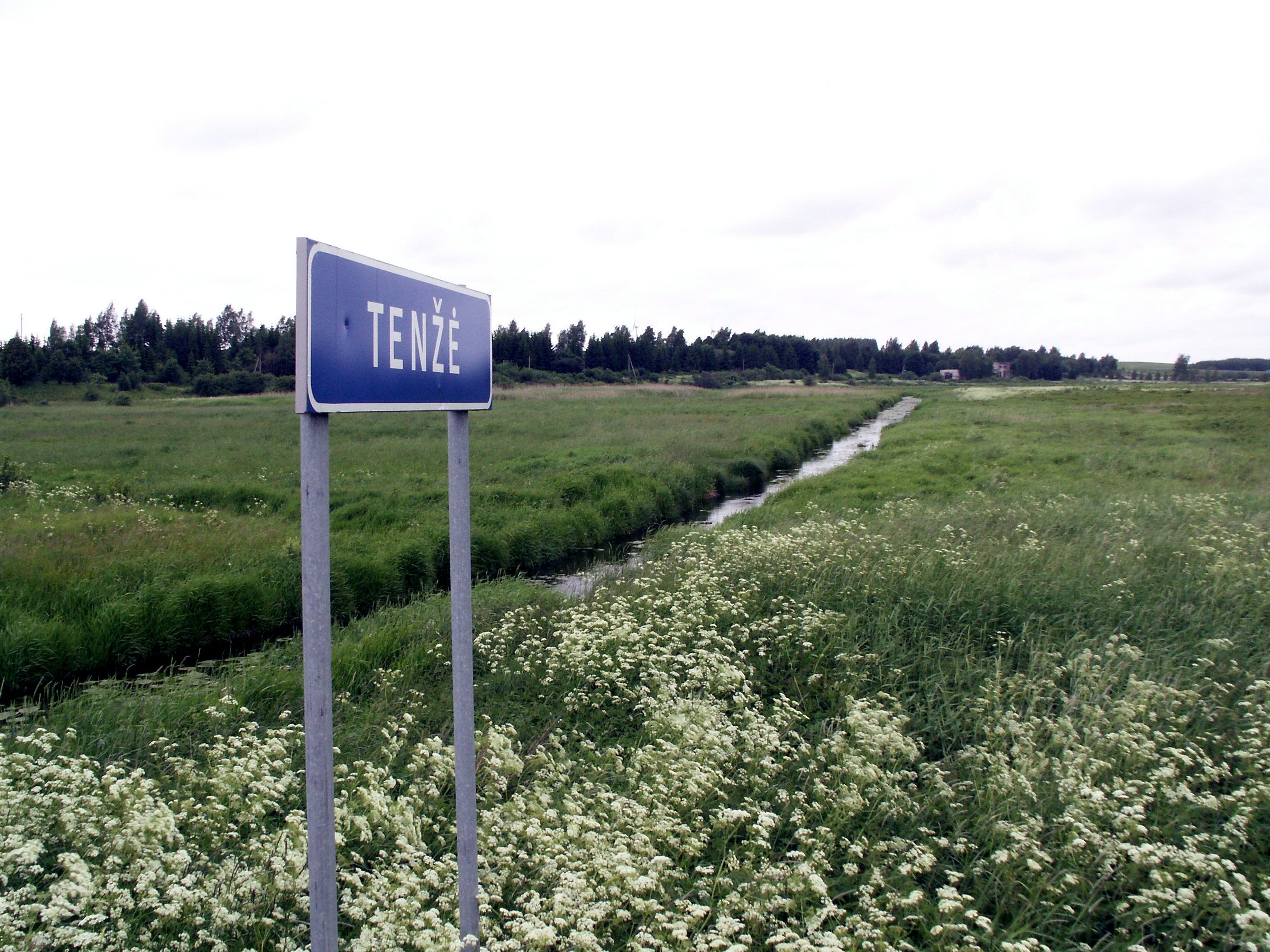 Tenžė river near Prišmančiai, Kretinga district, Lithuania